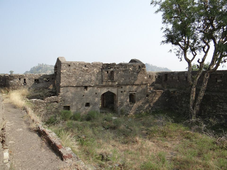 Old fort of Solanki, in Aravali hills in Jojawar. It's facing north and one gate facing east.